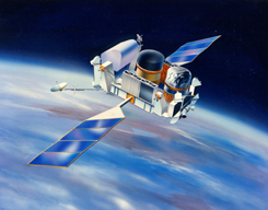 Compton Gamma Ray Observatory (NASA image).